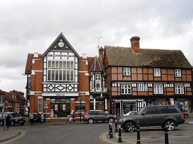 Buildings, Wantage Market Place, Oxfordshire (formerly Berkshire). The HSBC Bank, on the left, is in the Old Town Hall, built in 1877. A closer view of the building can be seen here 1321077. The shops on the right are in a 17th-century former house, timber framed with herring-bone brick nogging and jettied upper floors.